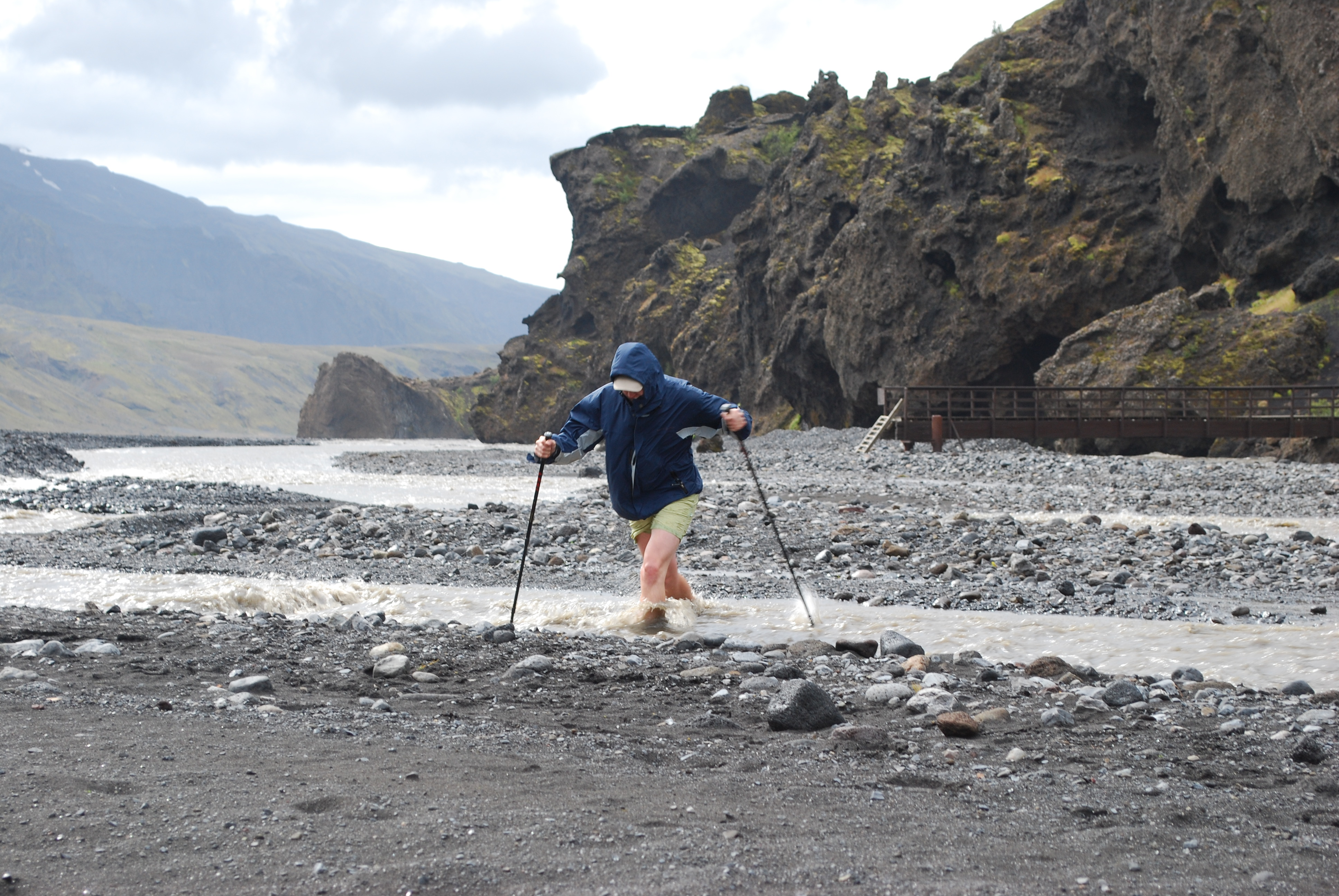 Wading of river from Skógafoss to the Landmannalaugar, Iceland